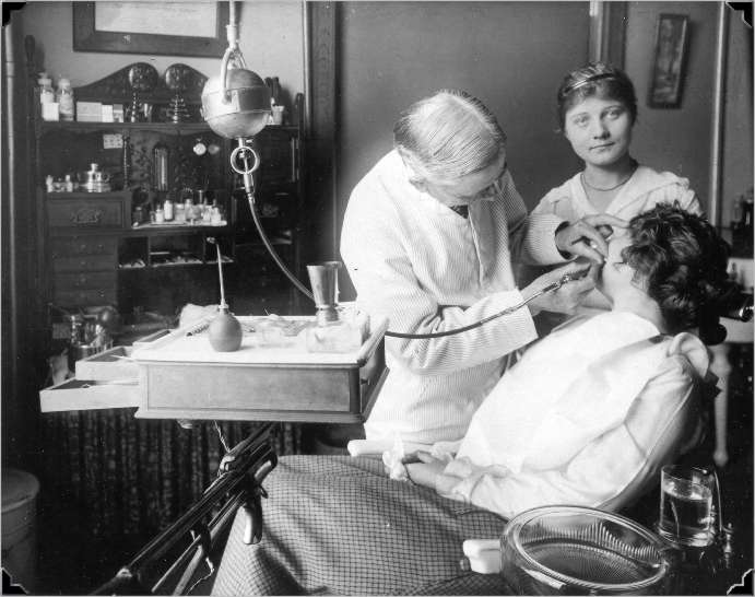 Dental practice 1915 in the USA